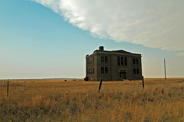 Abandoned schoolhouse in the ghost town of Vananda, Montana. View to northeast.